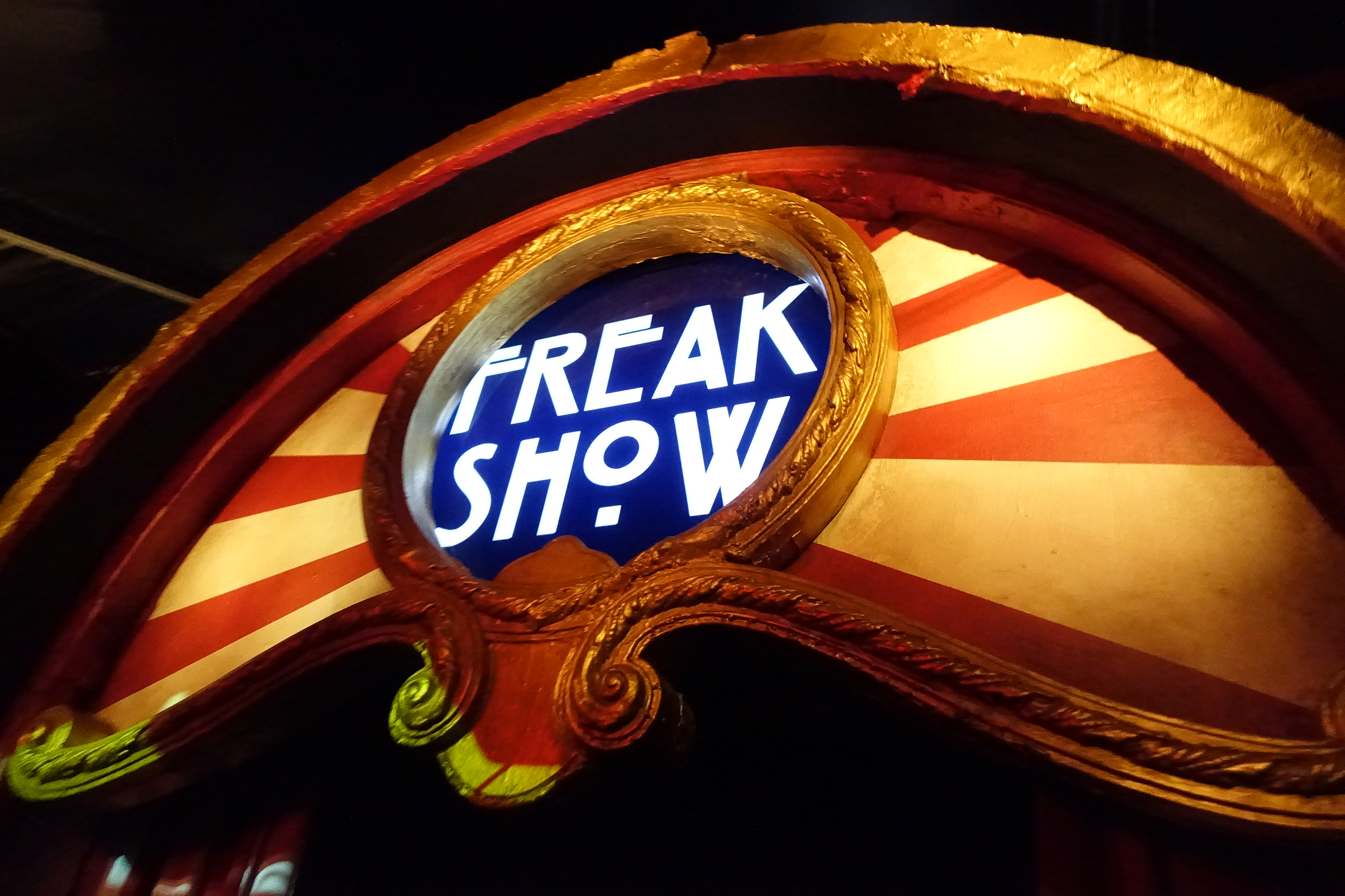 Halloween Horror Nights event dedicated to American Horror Story, Universal Studios Hollywood